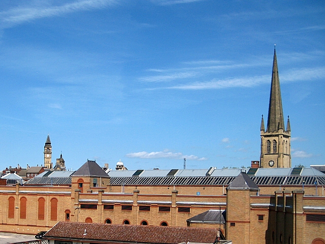 Wakefield skyline Looking over the Ridings shopping centre from the car park, on the left is the Town Hall, on the right is the Cathedral.